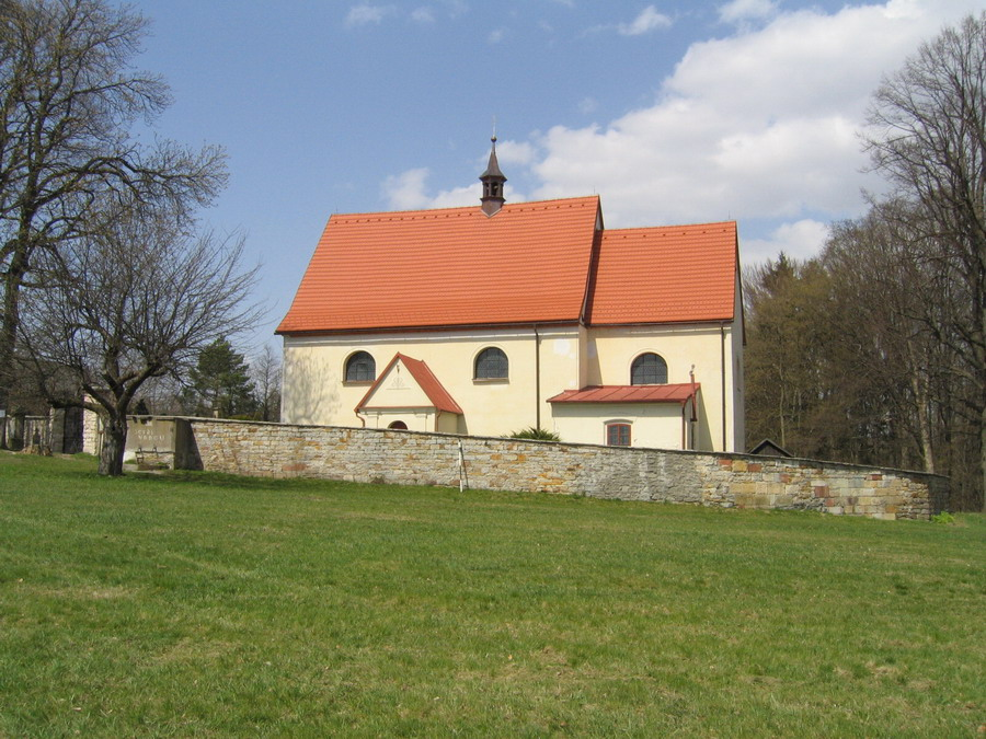 Church of the Visitation in Boušín, part of Slatina nad Úpou municipality, Náchod District, Czech Republic.